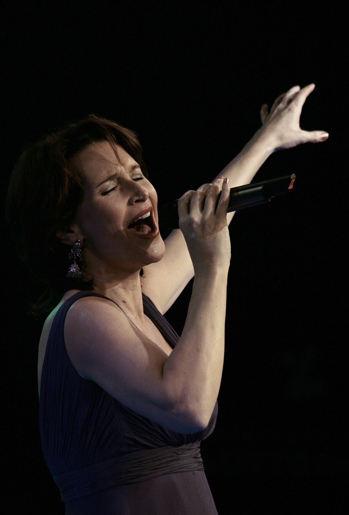 Maya Hakvoort at the MiA-Awards 2009 (Studio 44, Vienna, Austria).